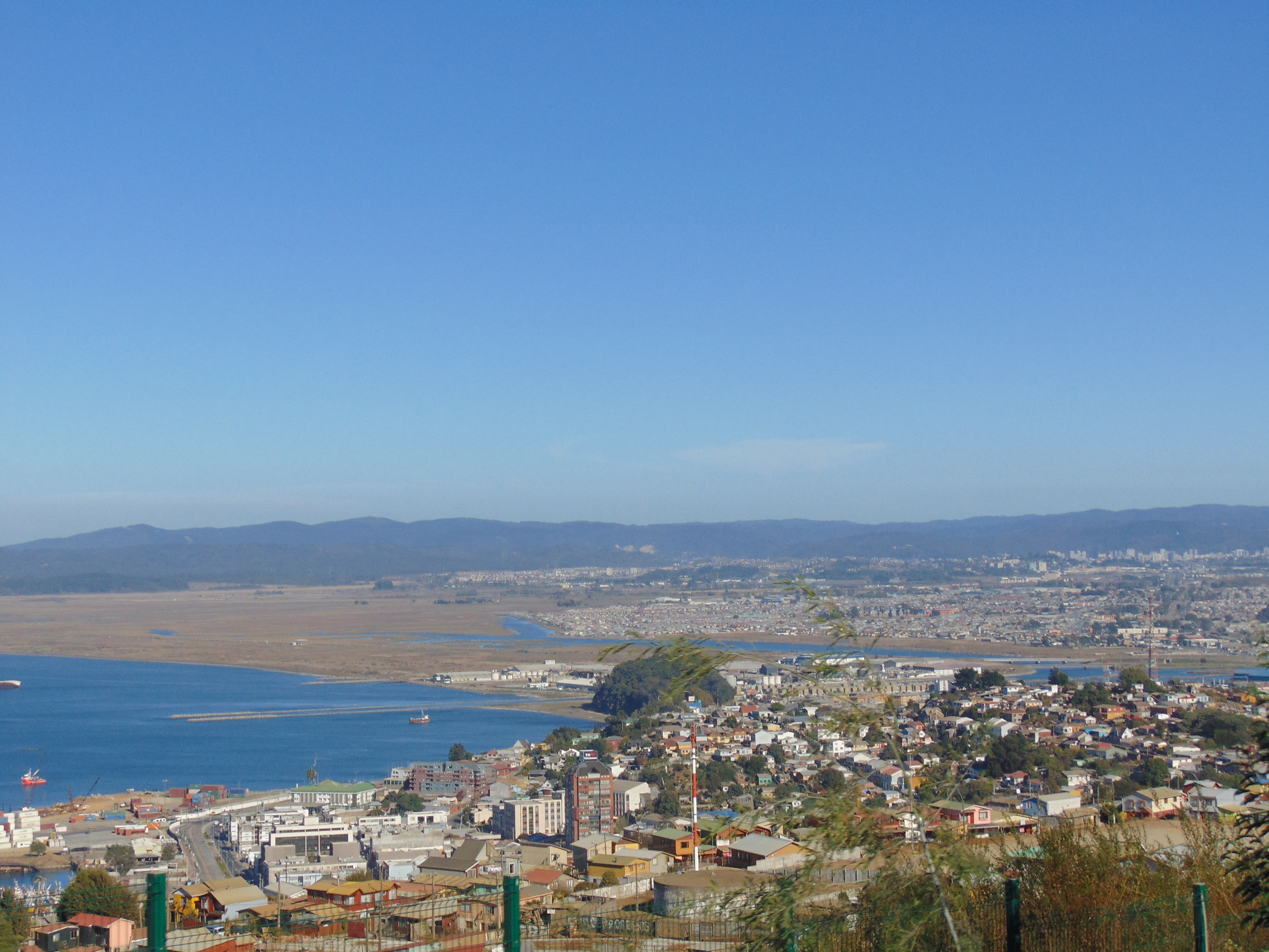 Concepción Metropolitan Area, seeing from Las Canchas Neighbourhood, Talcahuano, Chile